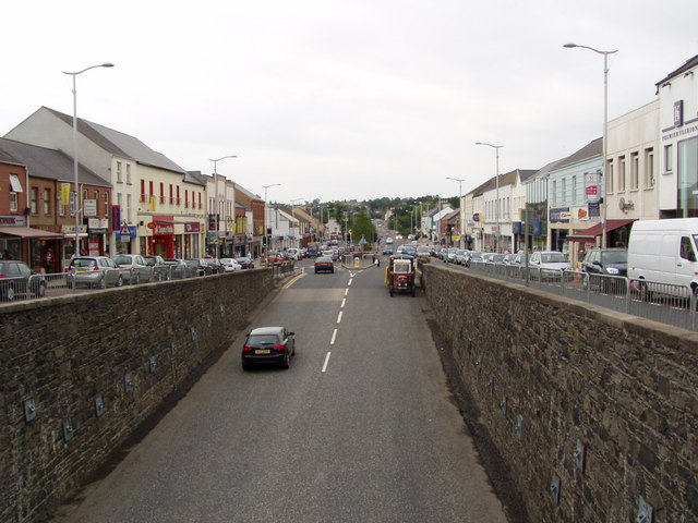 The Cut. Looking south towards Newry Road from the top of the Cut.